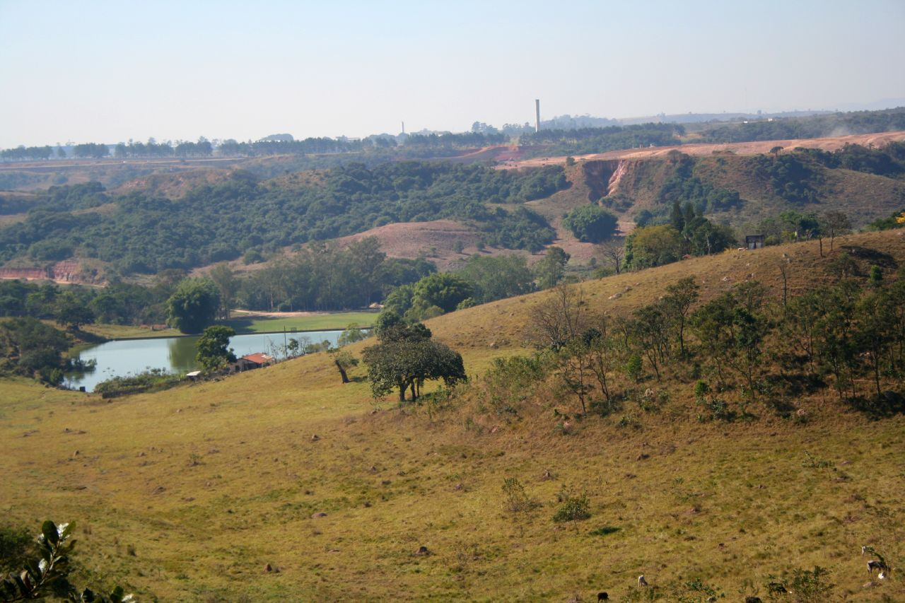 Jardim Portugal view, South of São José dos Campos, SP, Brazil